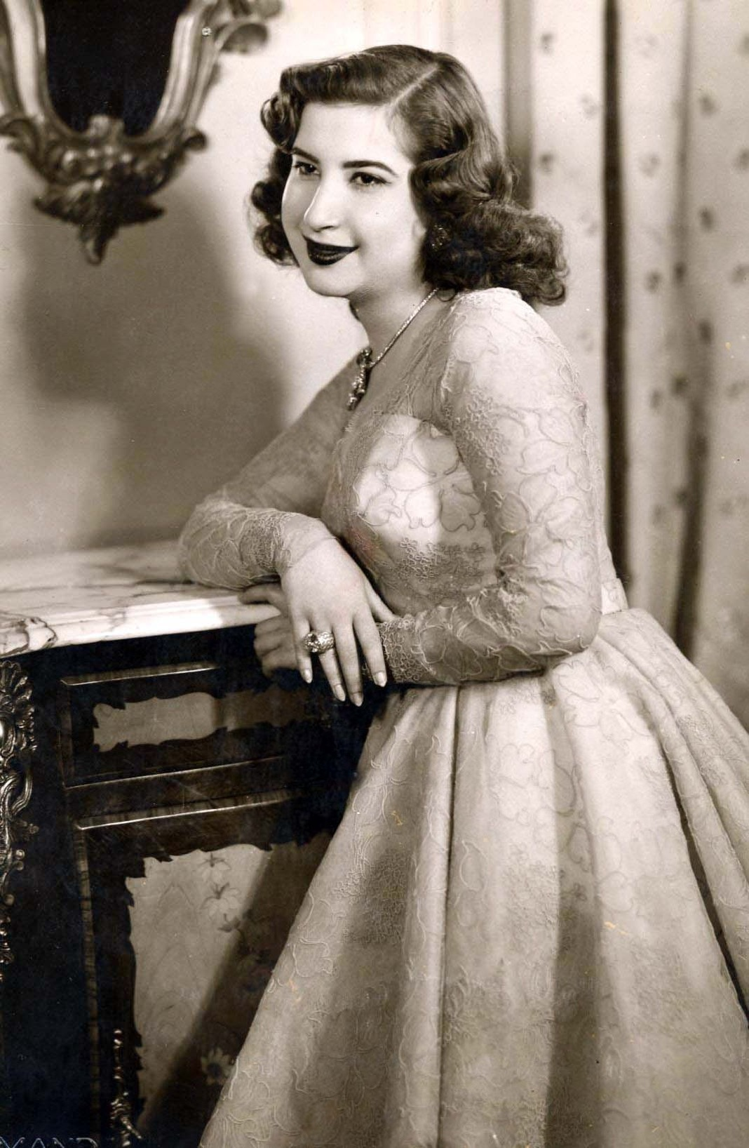 Photograph of Nariman Sadek (1933–2005), the last Queen Consort of Egypt. According to this French-language caption, the photograph was taken a few days before King Farouk I and Queen Nariman's wedding ceremony, which took place in Abdeen Palace on 6 May 1951.